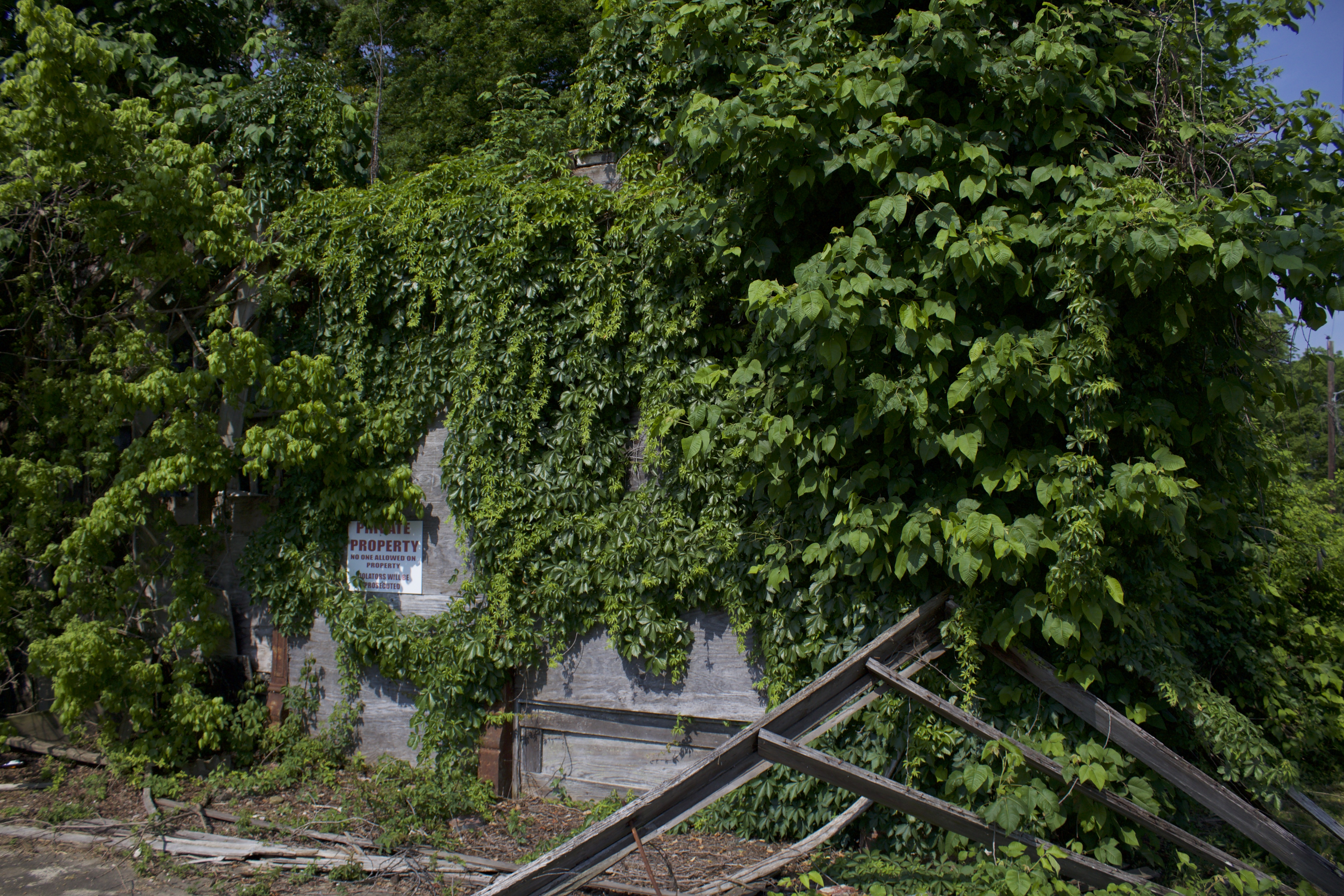 2018 remains of Bryant's Grocery and Meat Market, where Emmett Till encountered Carolyn Bryant in 1955